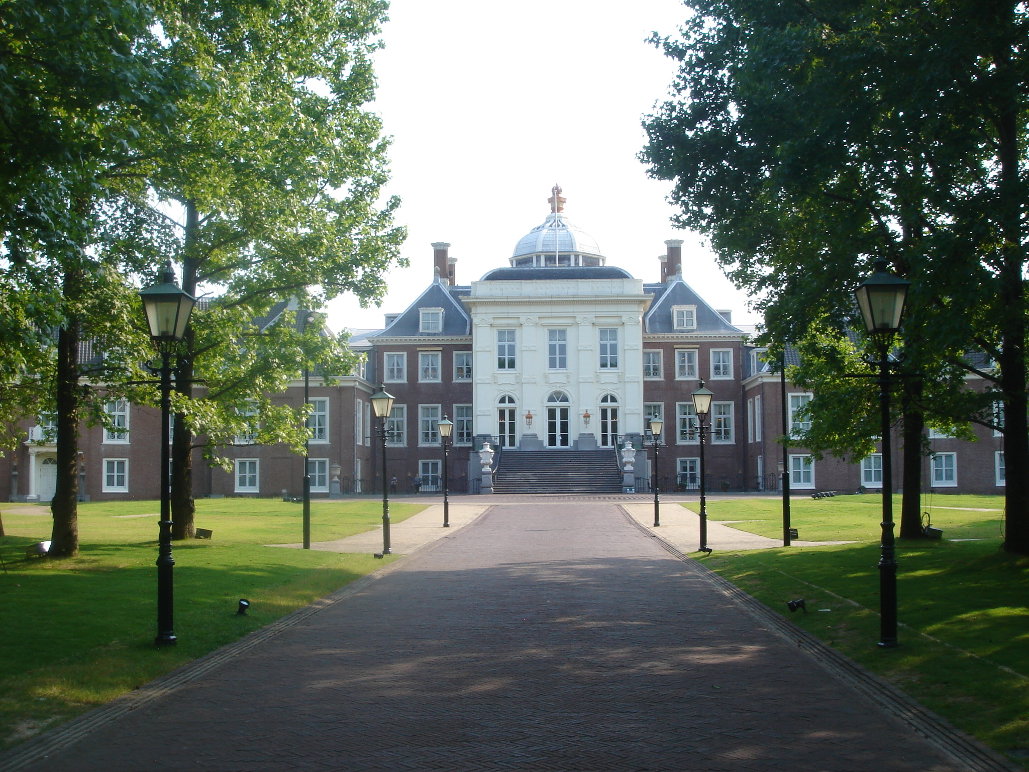 Replica of Palace Huis Ten Bosch (original in Holland) at theme park "Huis Ten Bosch", Nagasaki, Japan.